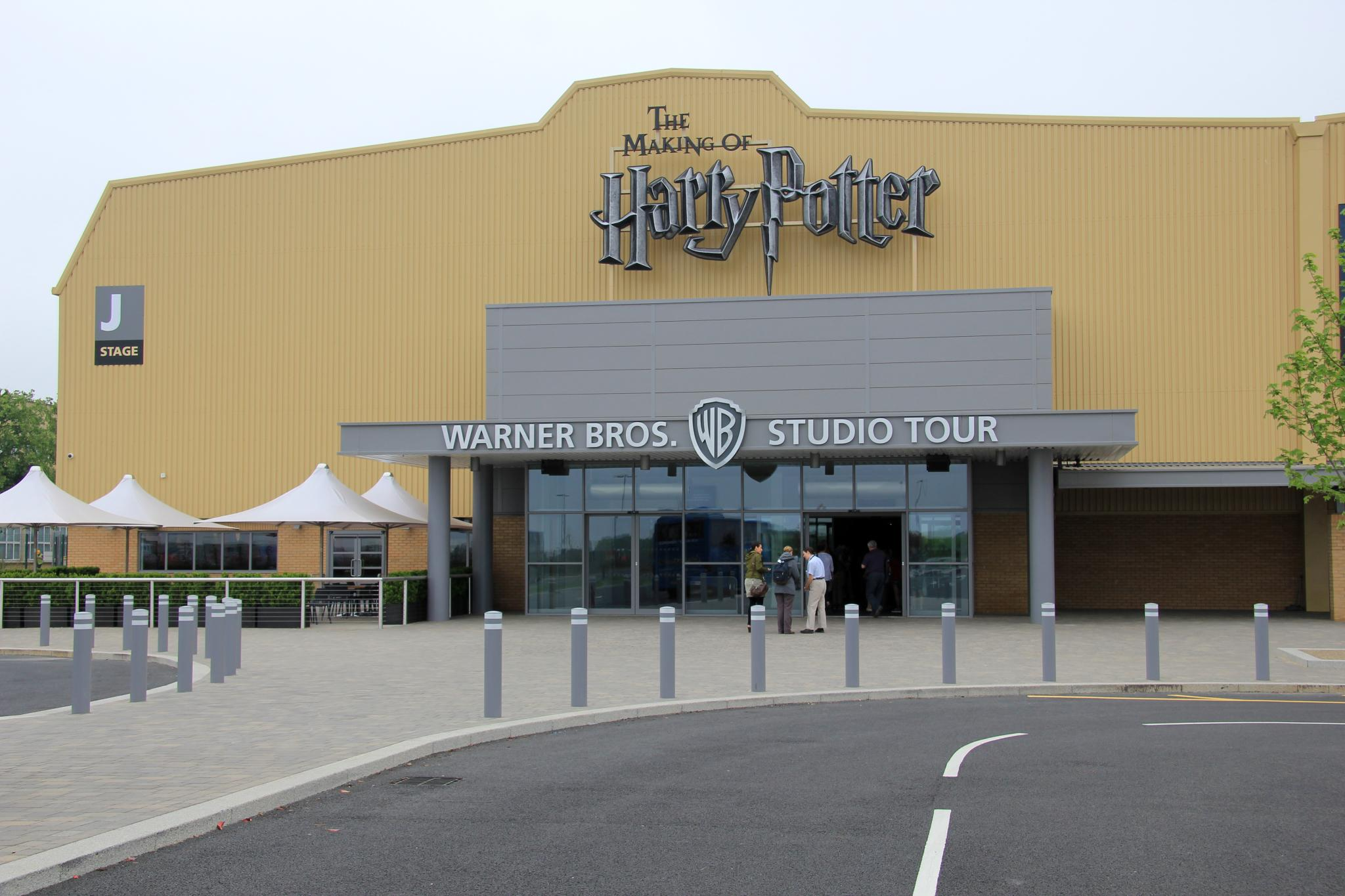 Warner Bros. Studio Tour London: The Making of Harry Potter.